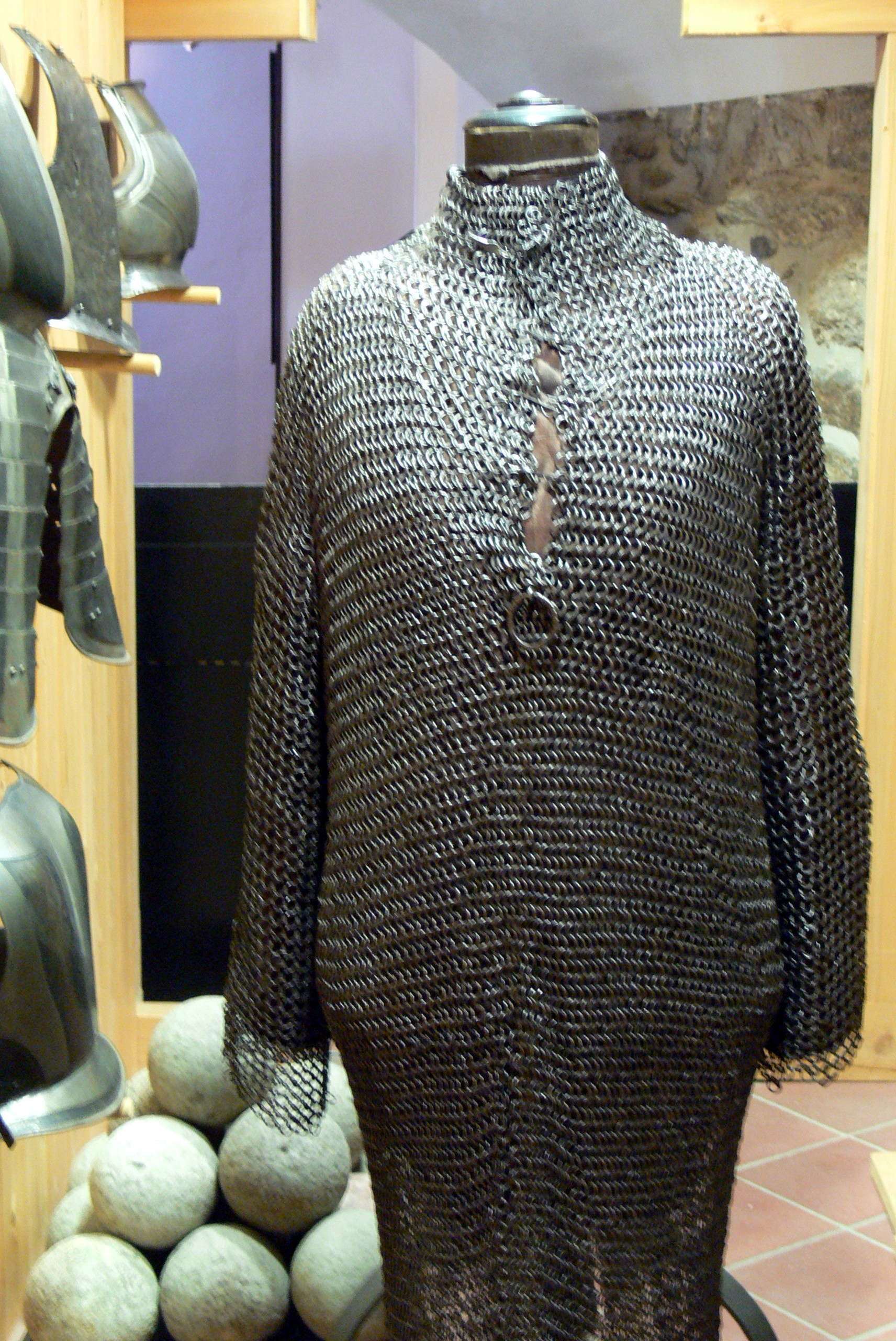 Oberhausmuseum ( Passau ). Chainmail ( 15th/16th century )